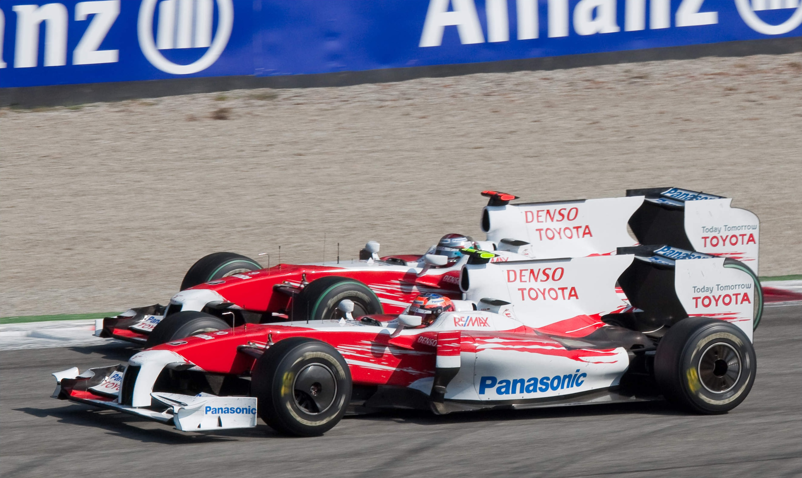 Toyota F1 drivers Jarno Trulli and Timo Glock race wheel-to-wheel at the 2009 Italian Grand Prix.